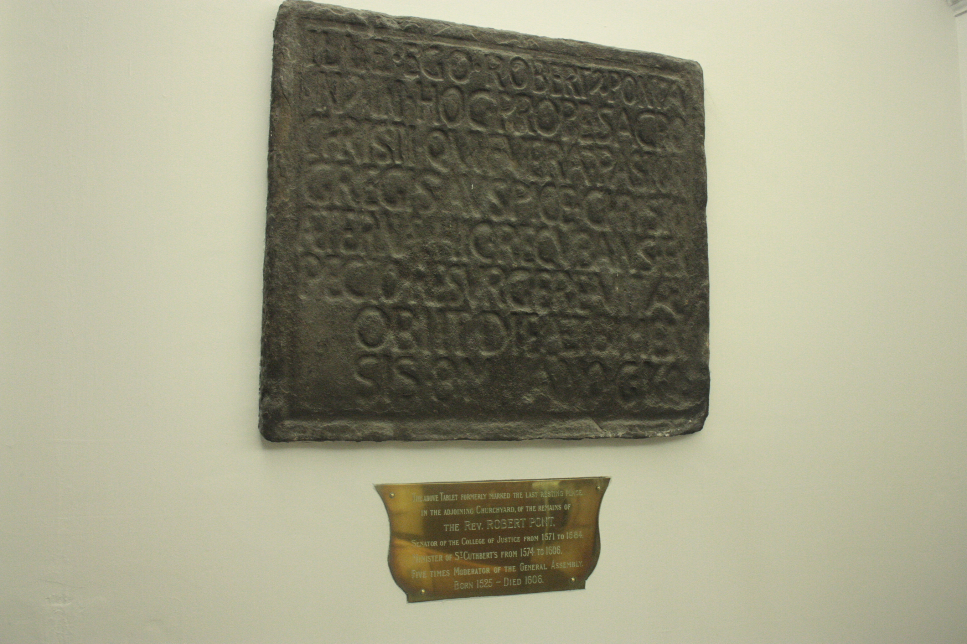 Memorial to Robert Pont, St Cuthberts, Edinburgh